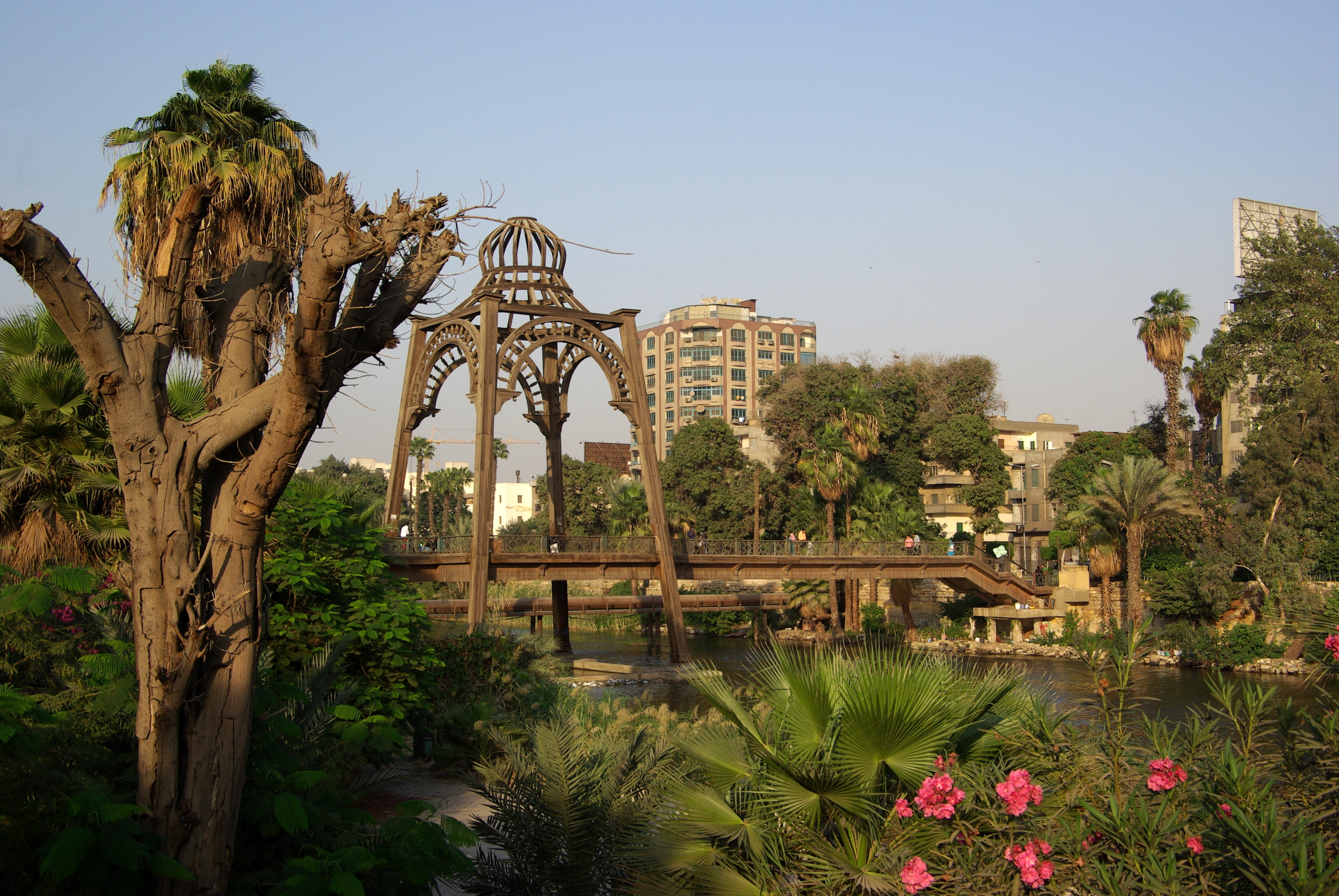 Cairo, Nile, pedestrian bridge to roda island